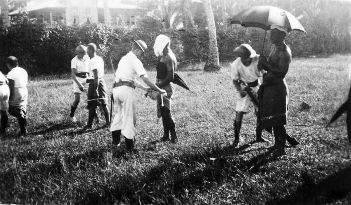 New Zealand sailors removing the white band insignia of the Mau, from lavalava.